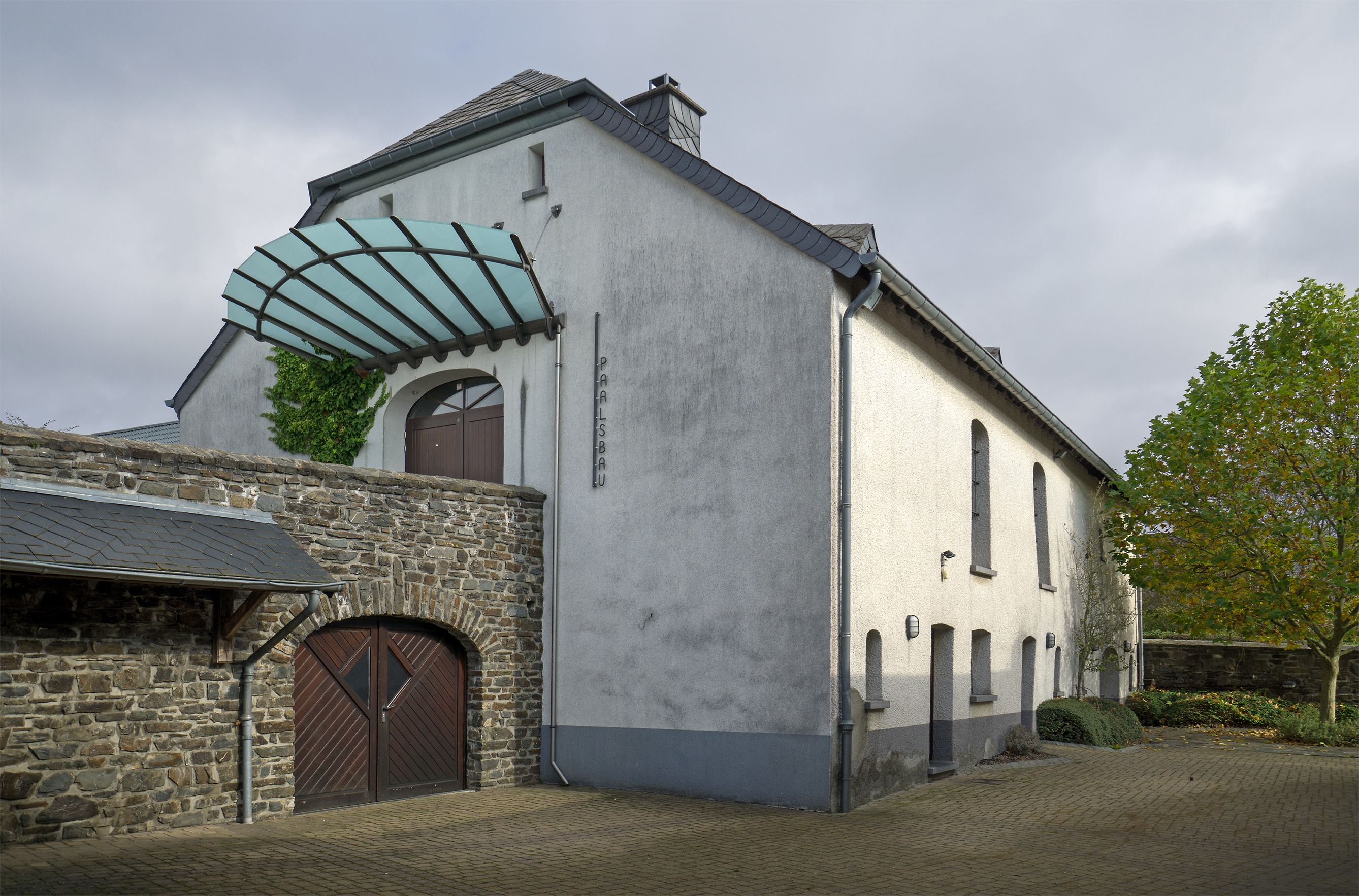 Cultural center Paalsbau in Noertrange